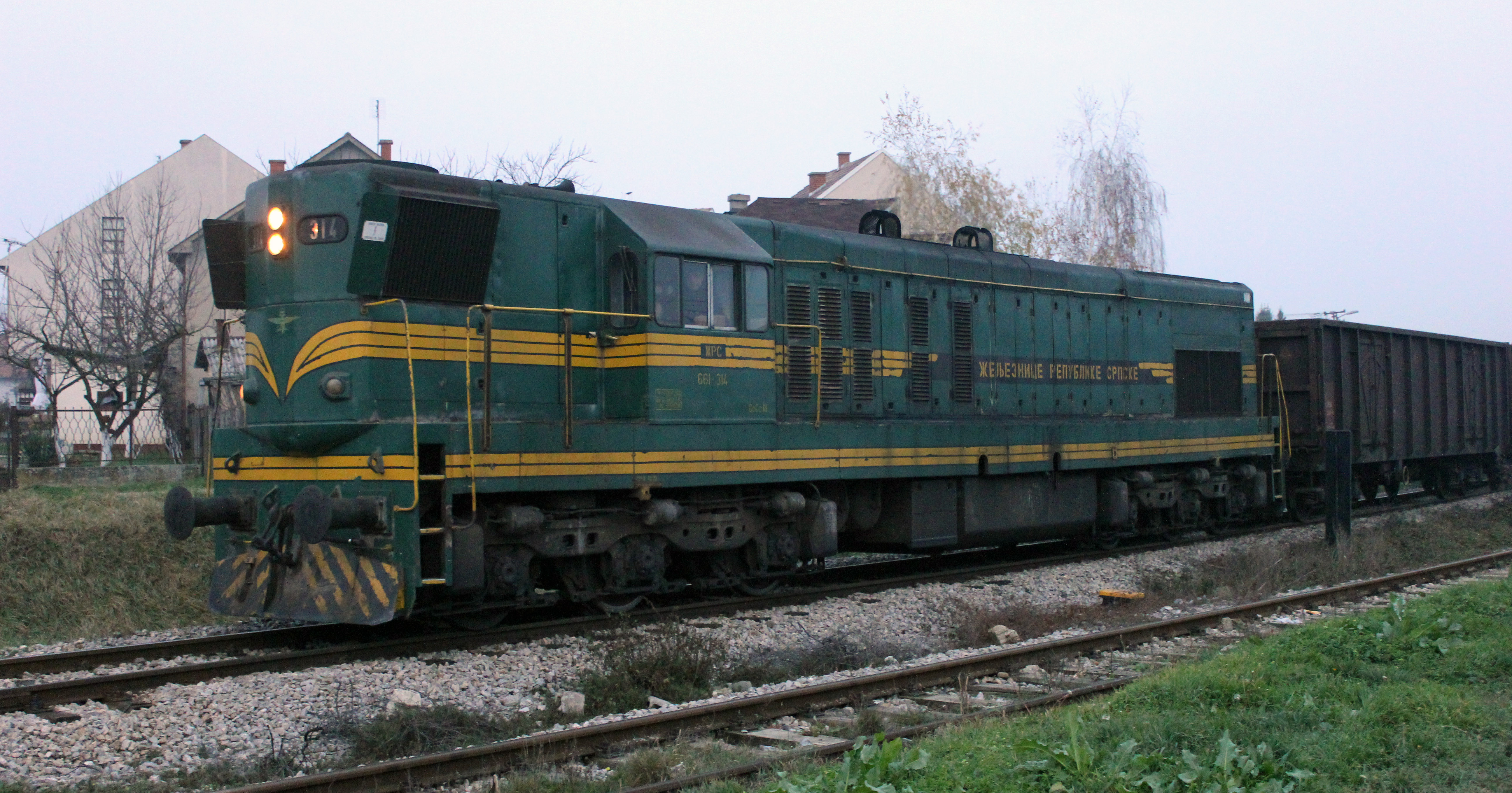 Republika Srpska (ŽRS) railways class 661 diesel locomotive hauling freight train at Šabac.